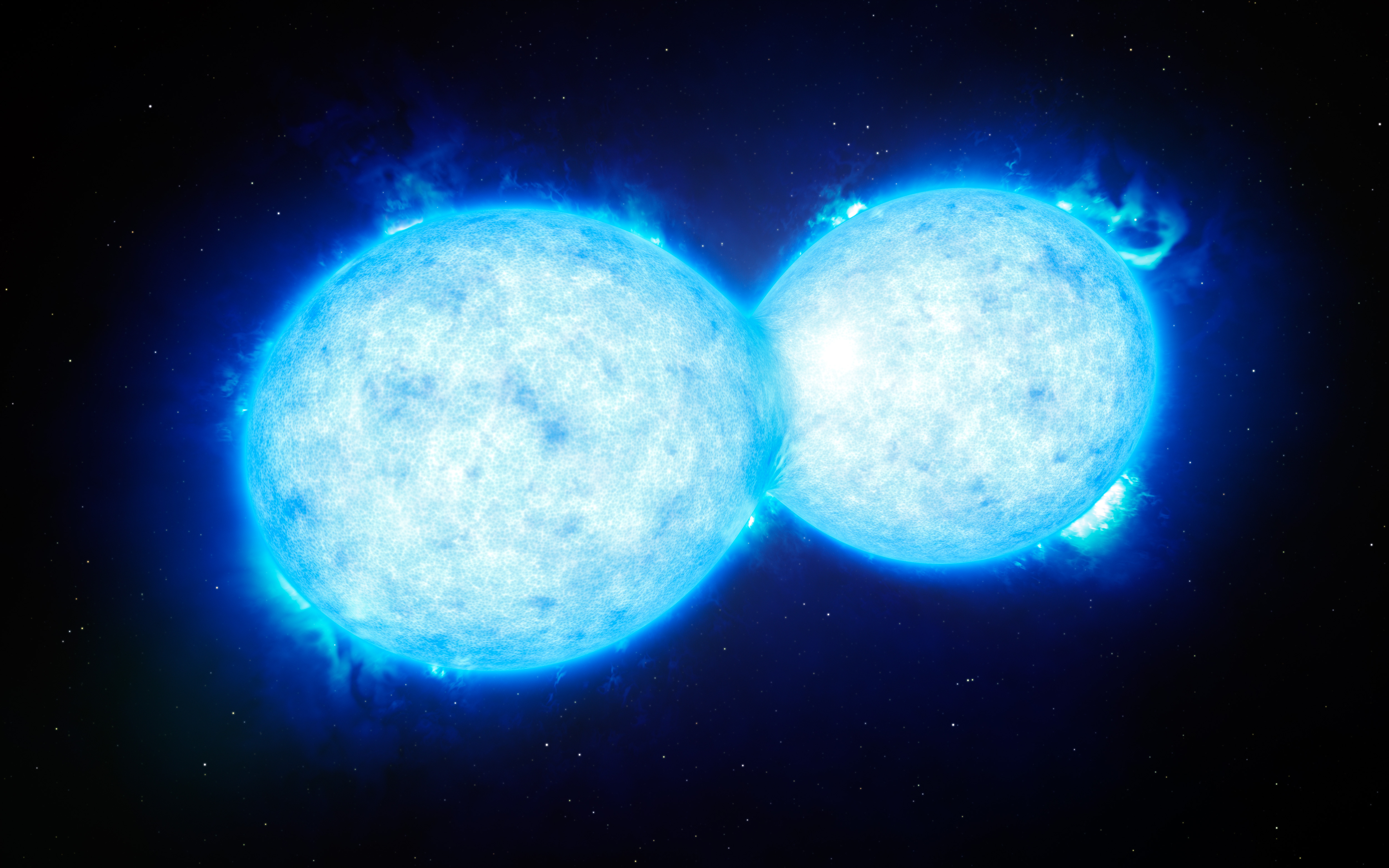 This artist’s impression shows VFTS 352 — the hottest and most massive double star system to date where the two components are in contact and sharing material. The two stars in this extreme system lie about 160 000 light-years from Earth in the Large Magellanic Cloud. This intriguing system could be heading for a dramatic end, either with the formation of a single giant star or as a future binary black hole.